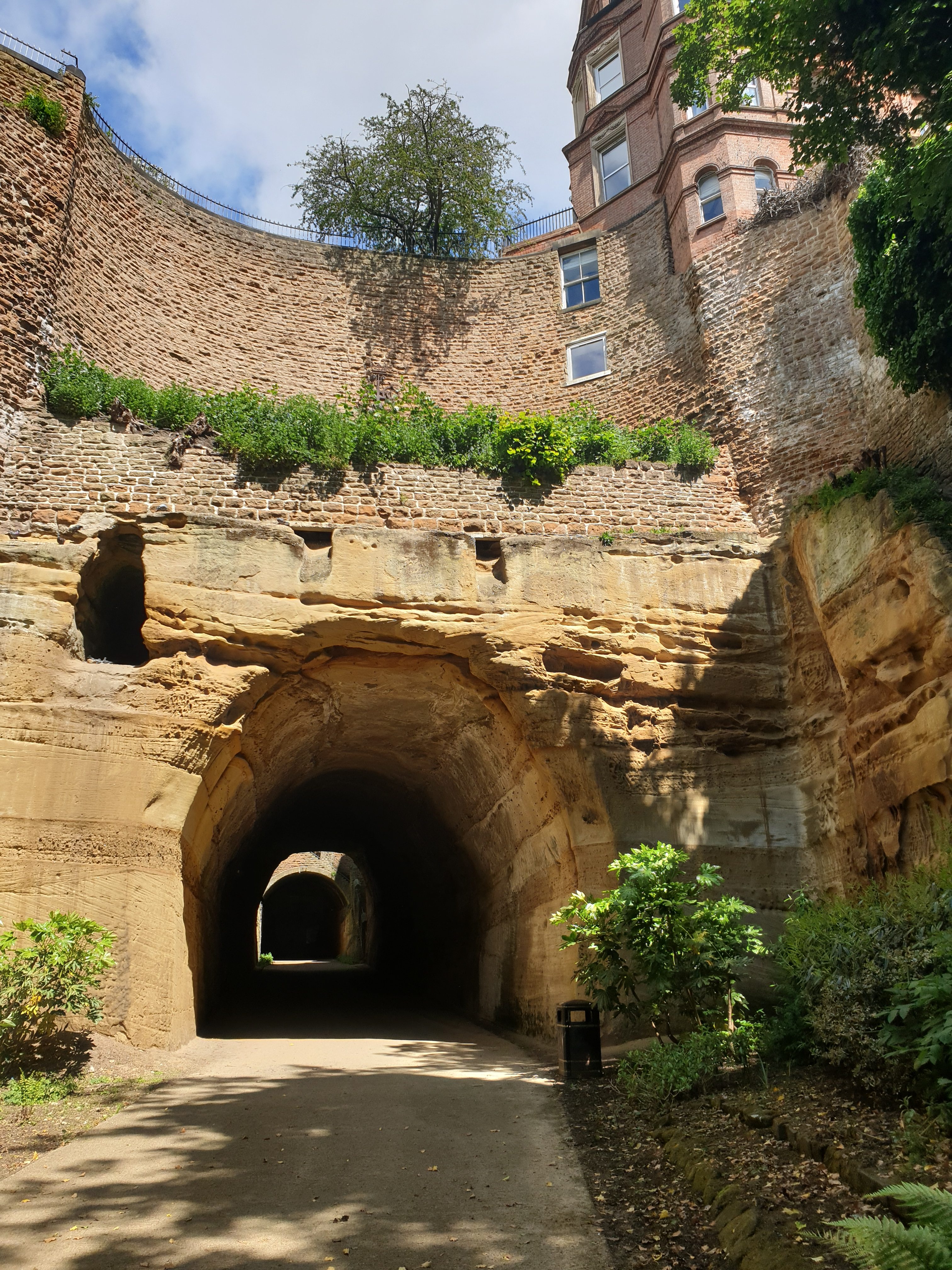 The Park Tunnel in Nottingham, UK, viewed from The Park estate approach to the tunnel. For a reciprocal view from the railings above the tunnel entrance, see this image.